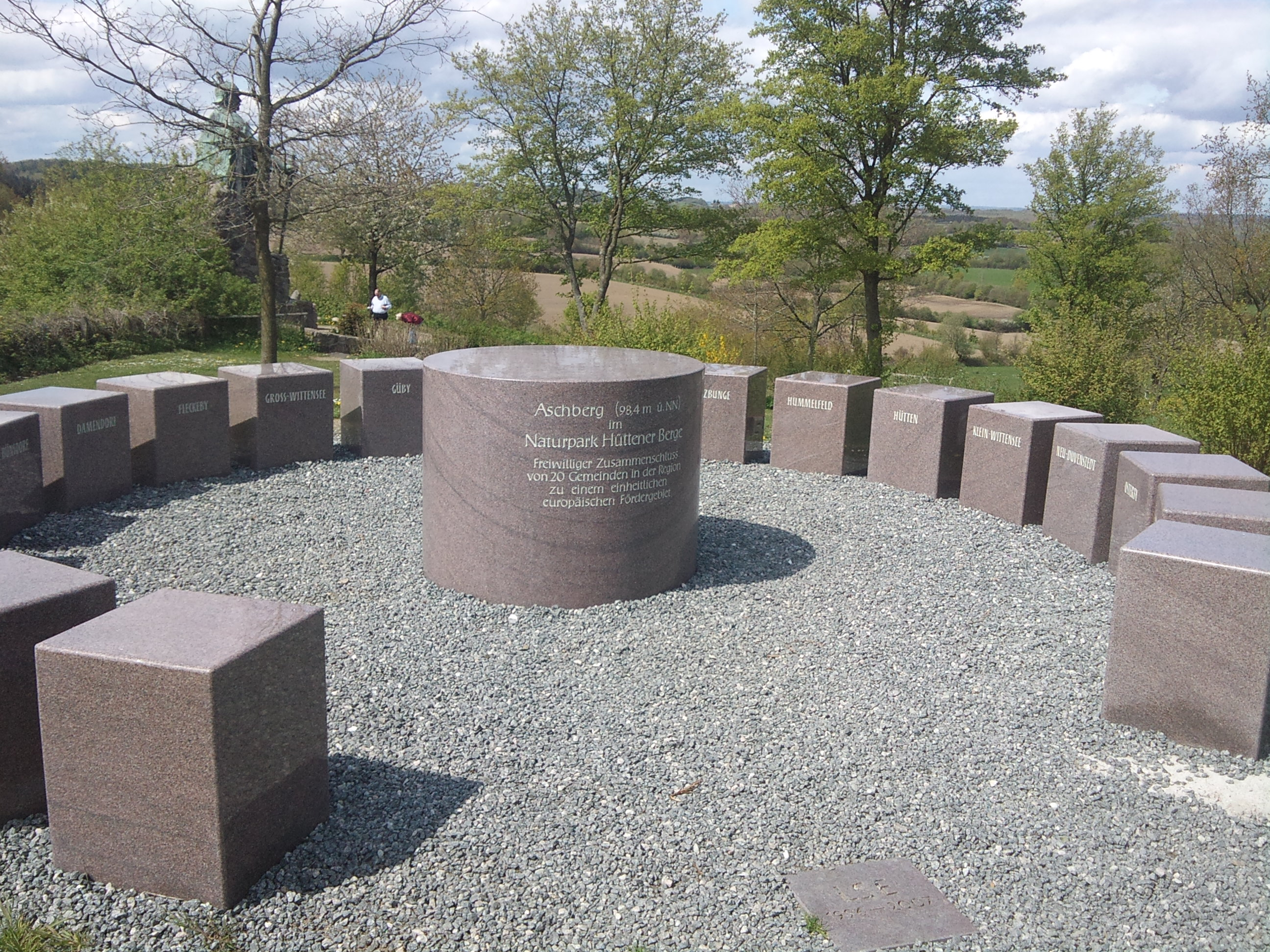 Aschberg, Schleswig-Holstein